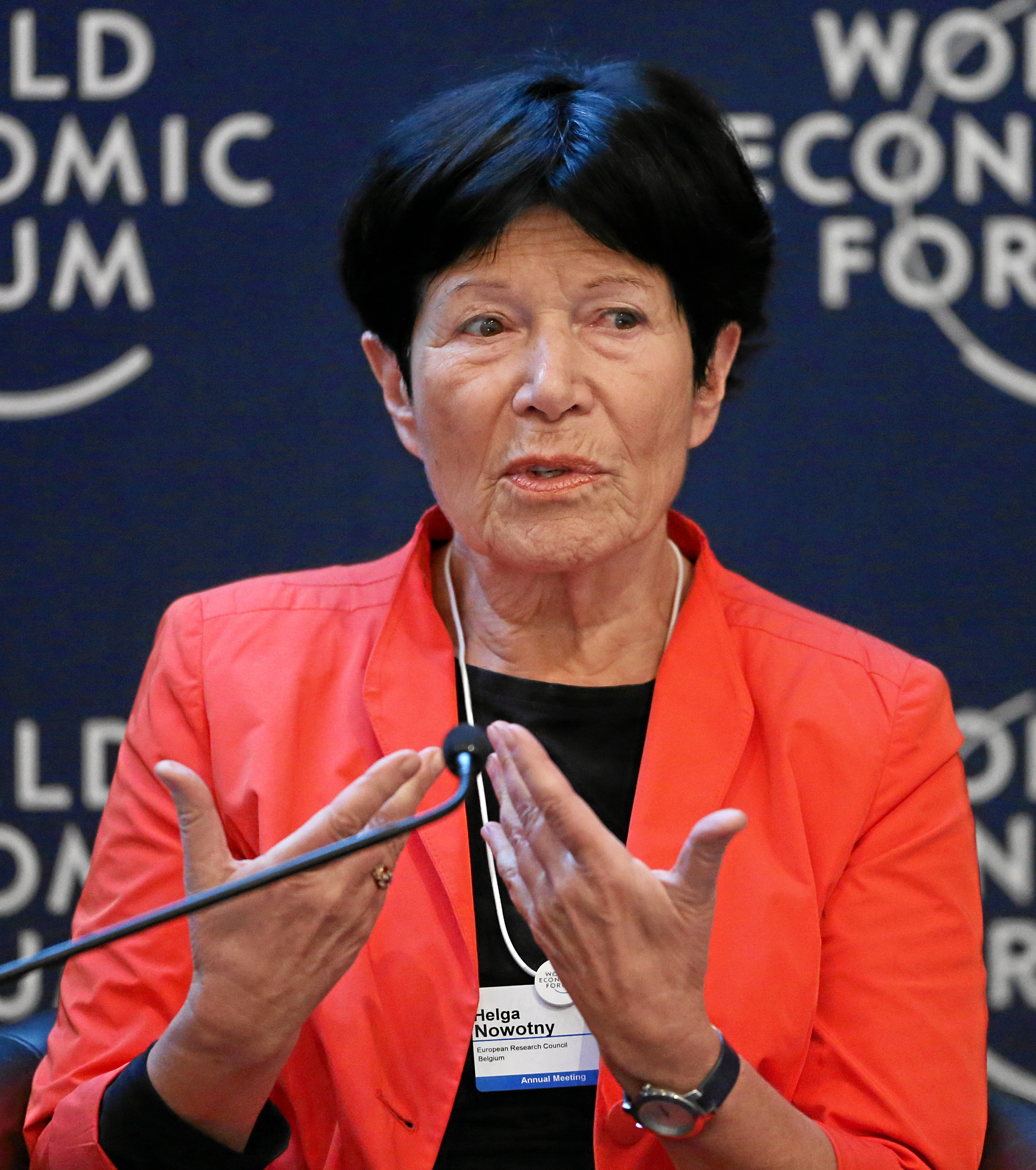 DAVOS/SWITZERLAND, 25JAN13 - Helga Nowotny, President, European Research Council, Belgium is seen during the session 'Meeting the Innovation Imperative' at the Annual Meeting 2013 of the World Economic Forum in Davos, Switzerland, January 25, 2013. . . Copyright by World Economic Forum. . Moritz Hager